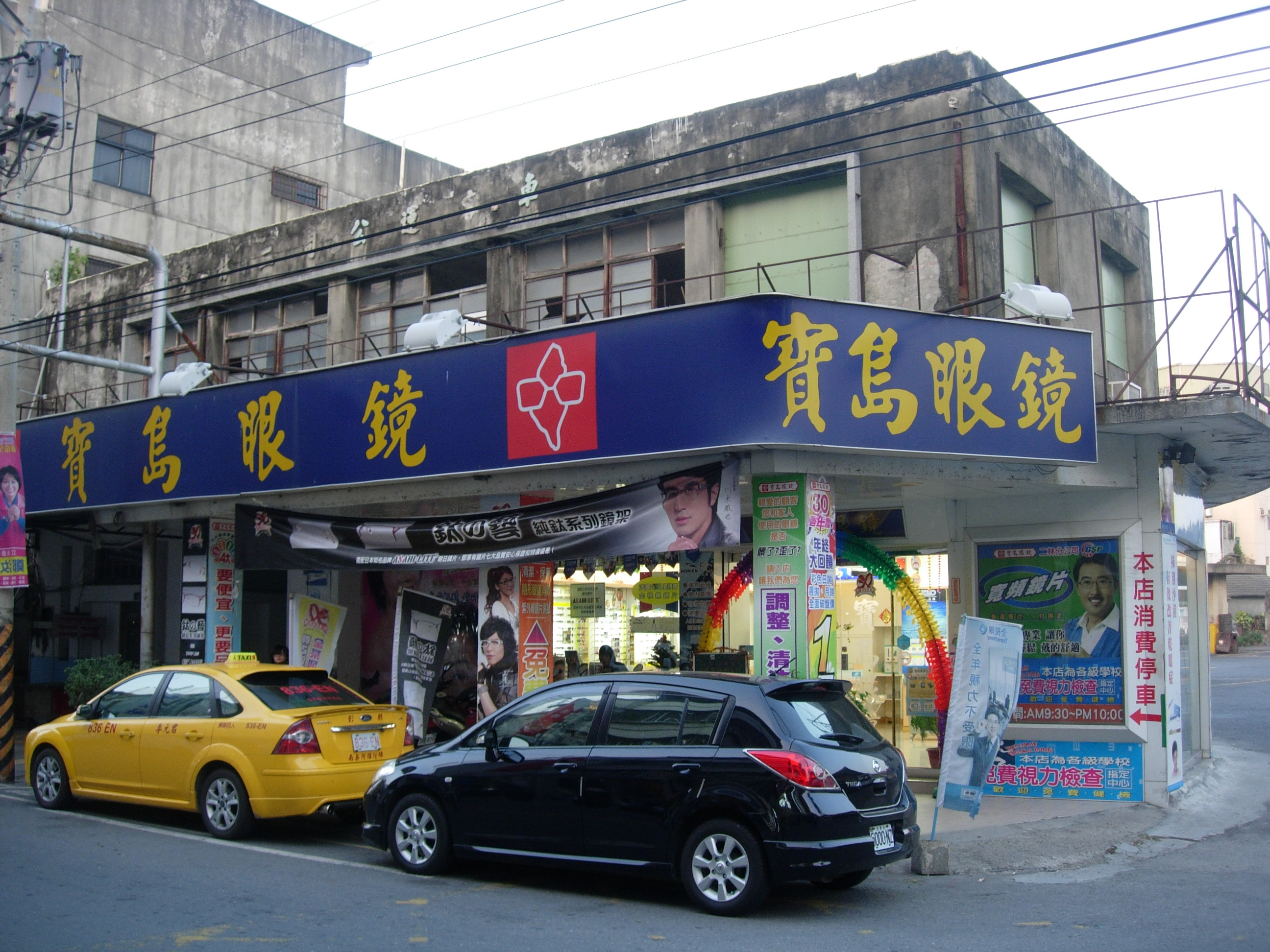 Yuanlin Bus Erhlin Station